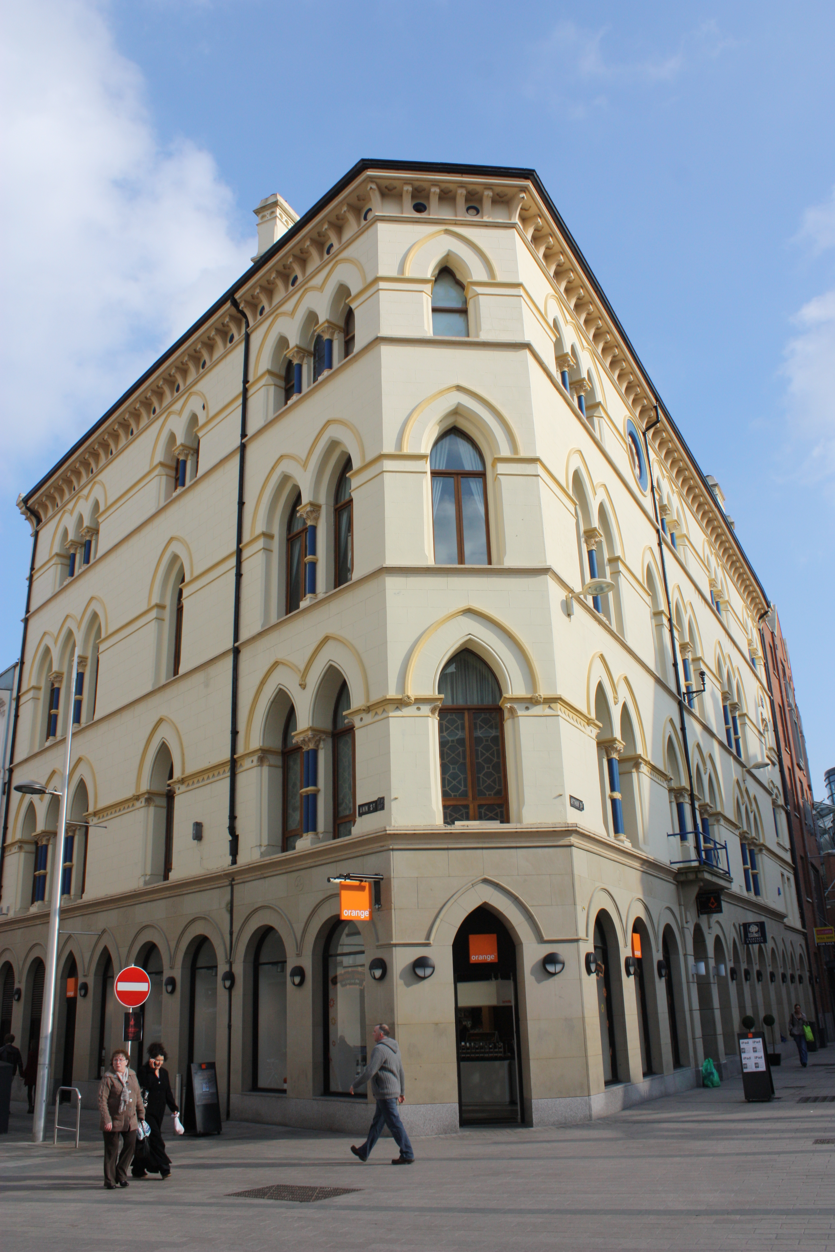 Orange, 1-3 Ann Street, Belfast, Northern Ireland, March 2011 (at the junction of Ann Street and Cornmarket)